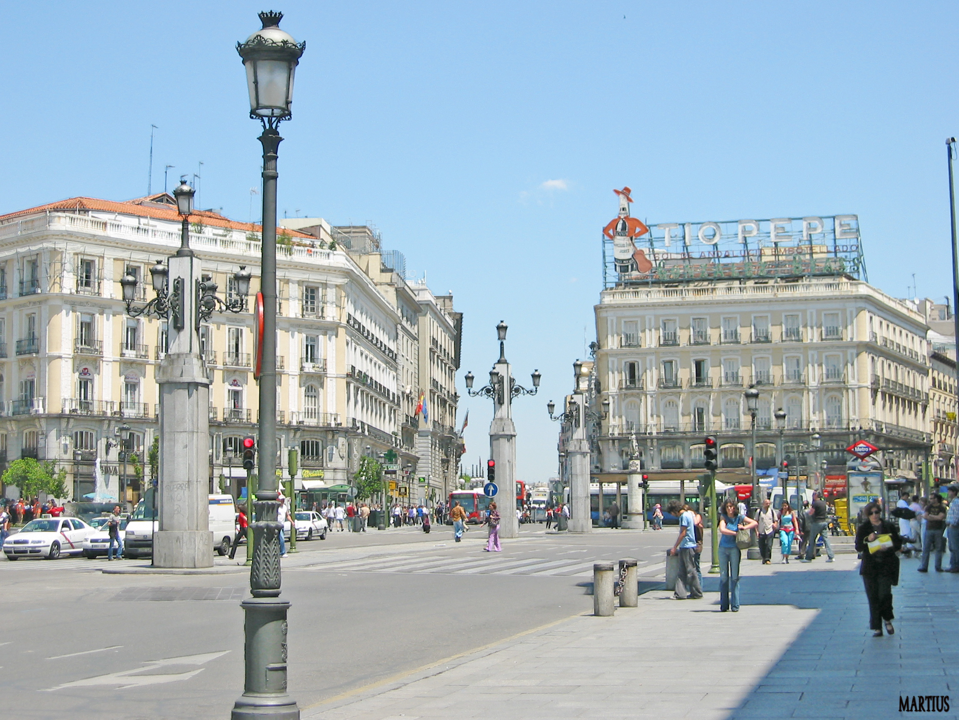 See above